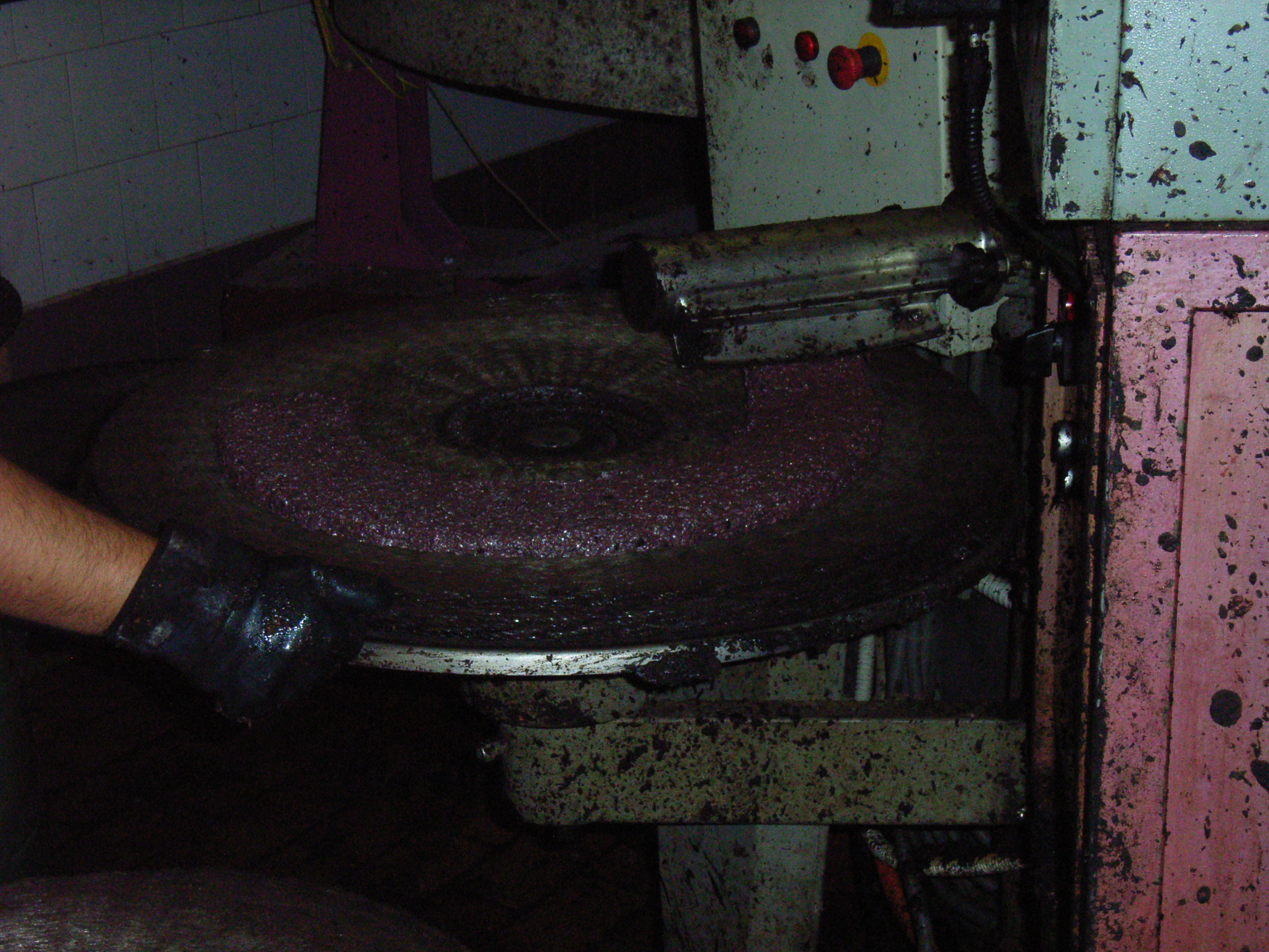 olive paste put on a plastic fiber disc